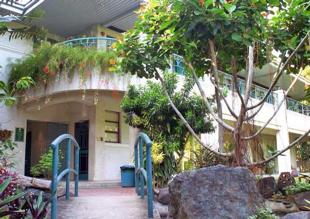 The Recollection House of DLS-SZ